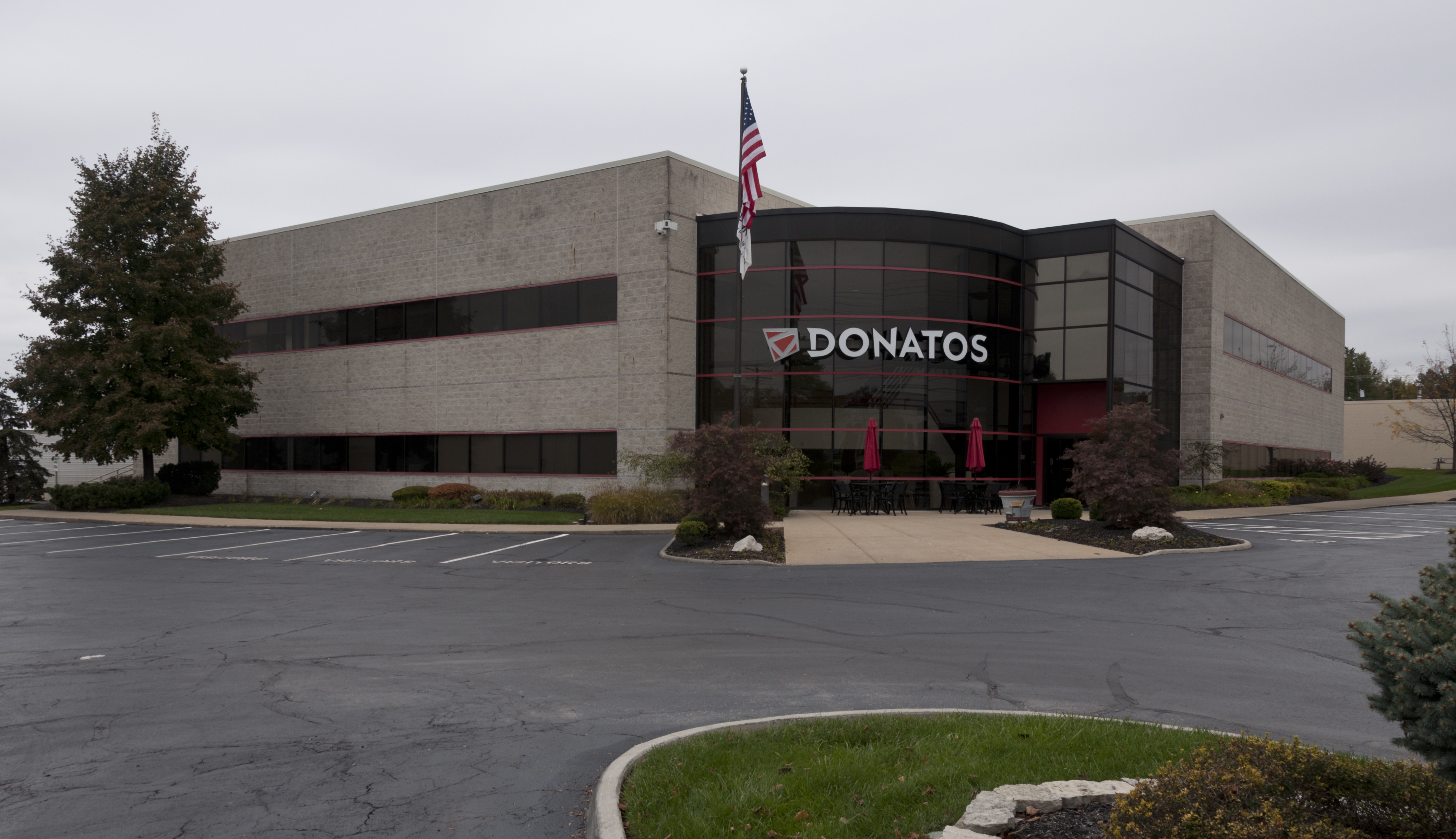 The corporate headquarters of Donatos Pizza located in Gahanna, Ohio.